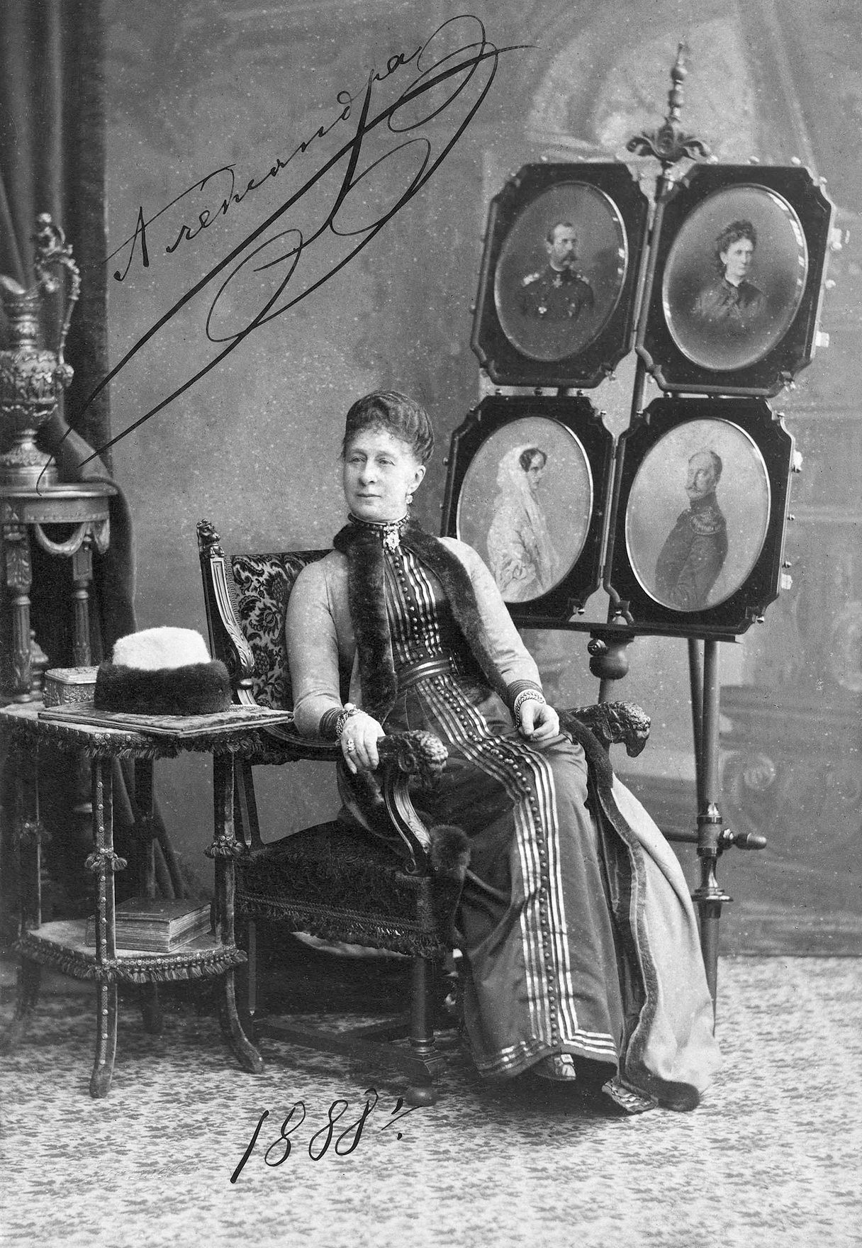 Grand Duchess Alexandra Iosifovna of Russia